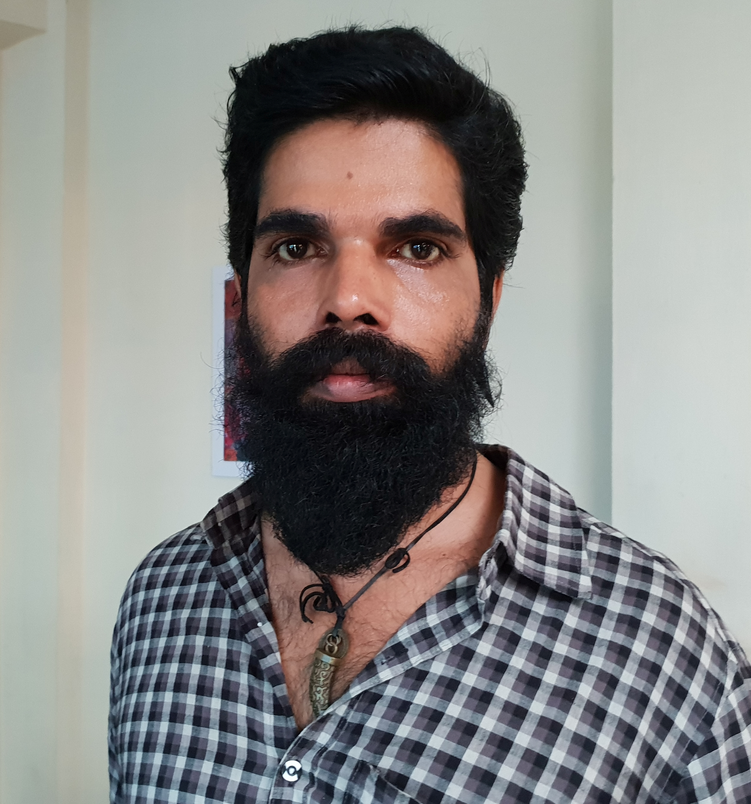 Malayalam film actor Bineesh Bastin